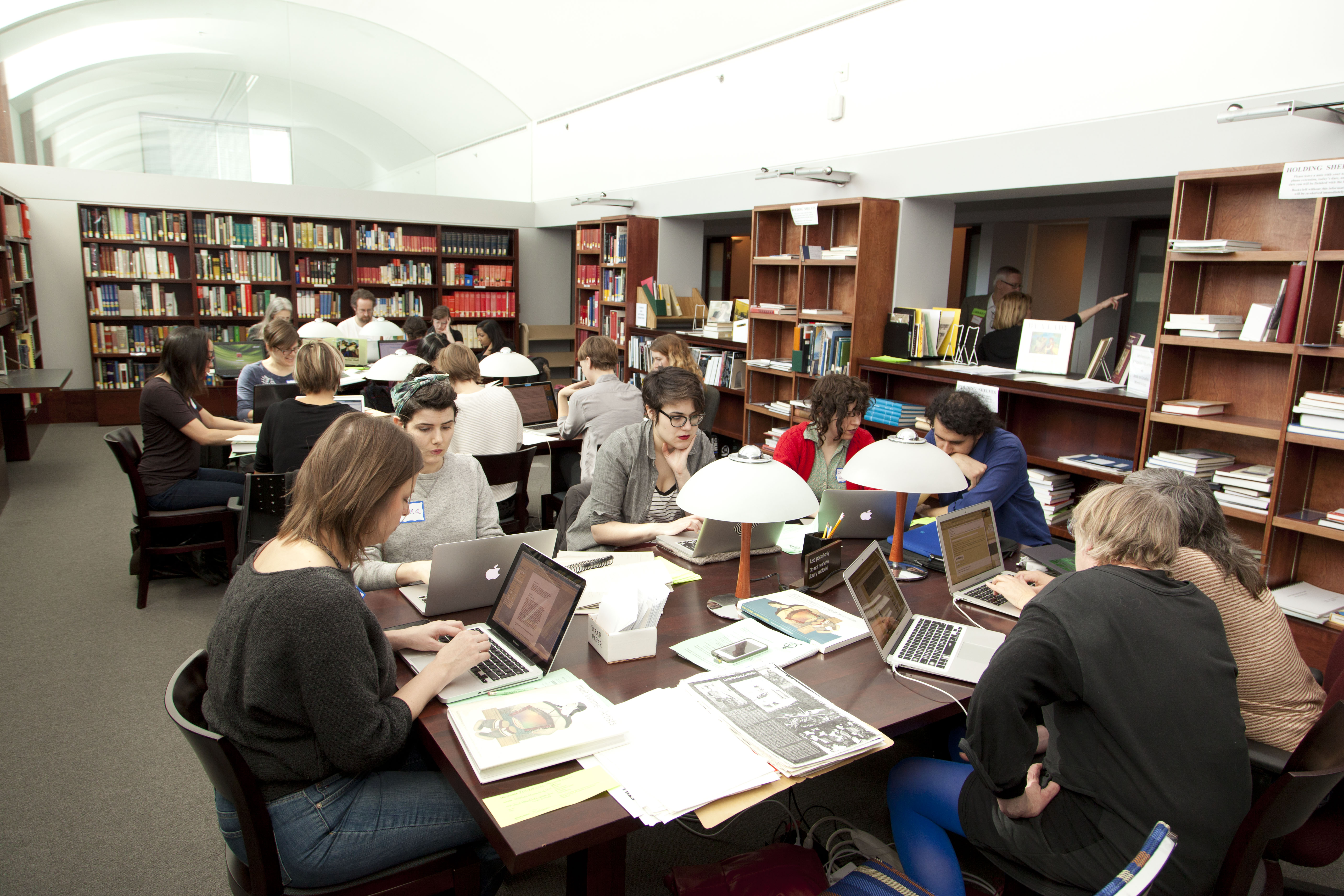 Art+Feminism Wikipedia Edit-A-Thon